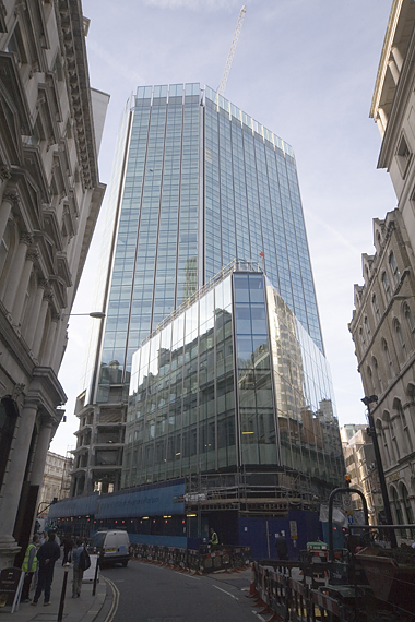 DTZ Headquarters 125 Old Broad St City of London, London, Greater London EC2N 1AR